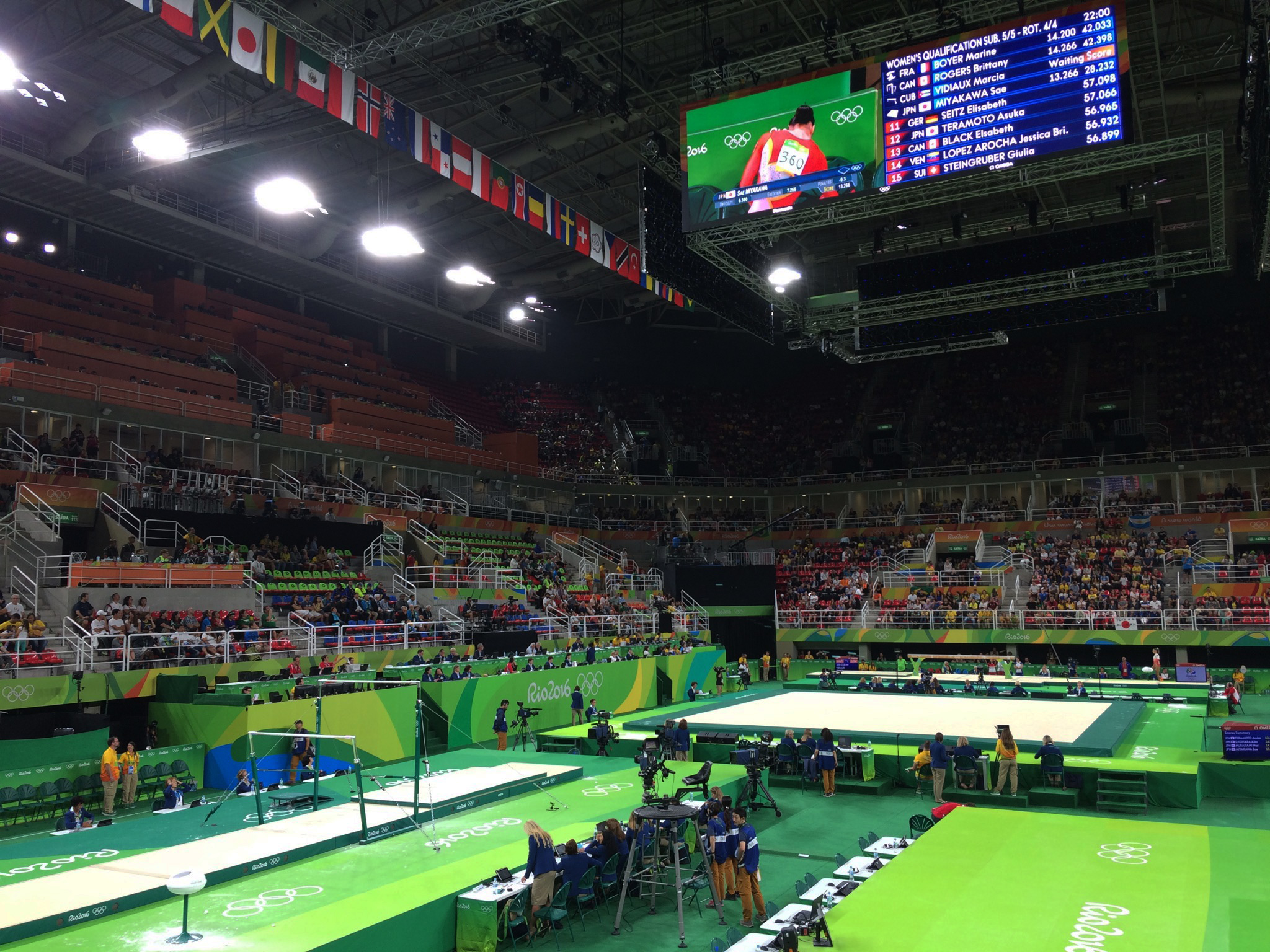 No attribution required, but appreciated If you can credit Visit for more free photos, videos and sounds. Rio Olympic Arena info